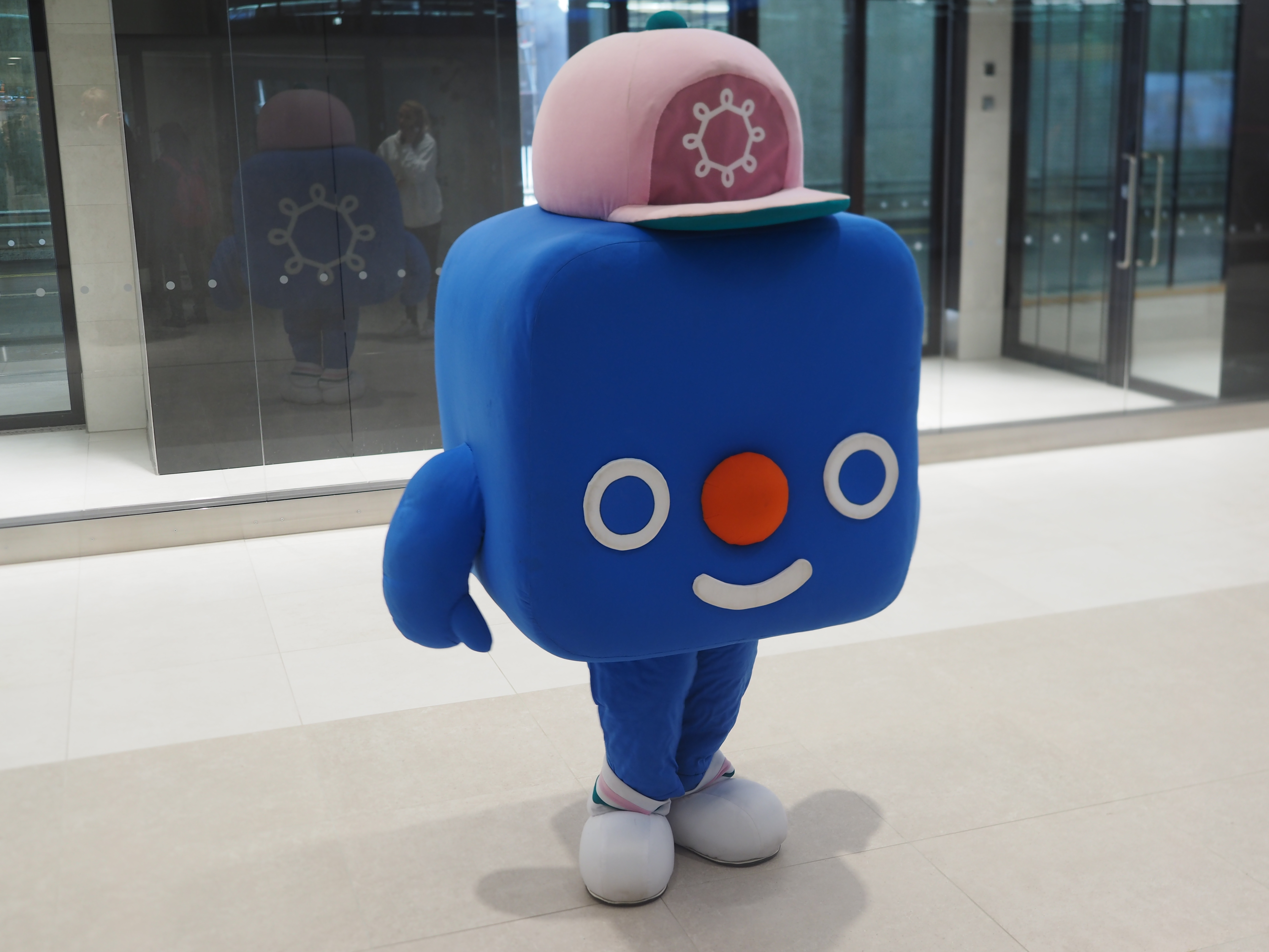 Välkky, a blue cube with a face and a hat, the official mascot of the Helsinki Regional Transport, at the Tapiola bus station in Espoo, Finland.